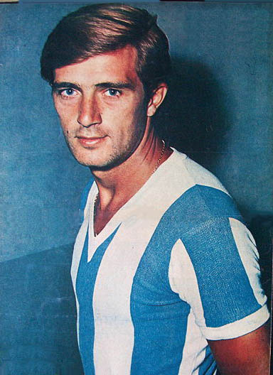 Silvio Marzolini during his time playing for Argentina national football team. He played for Argentina between 1960 & 1969.